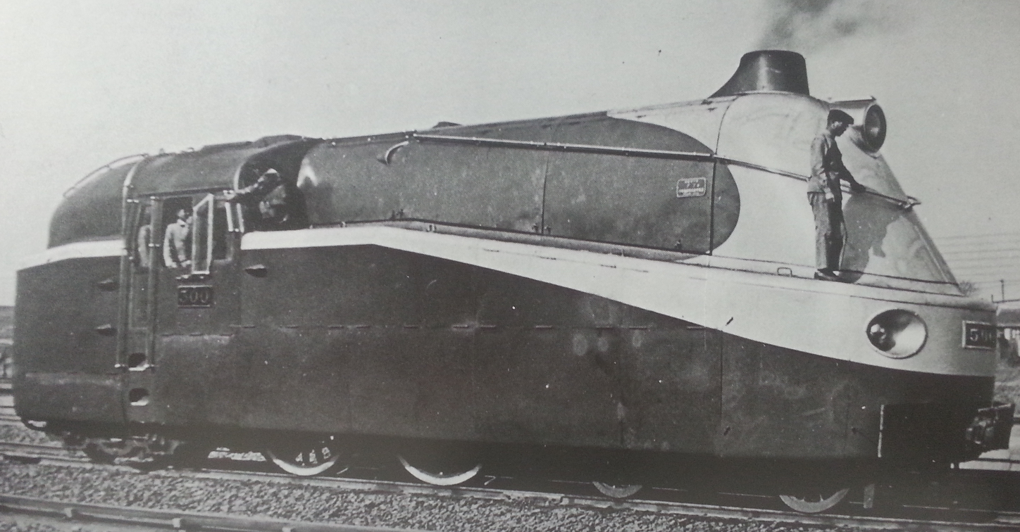 South Manchuria Railway locomotive Dabusa 500.